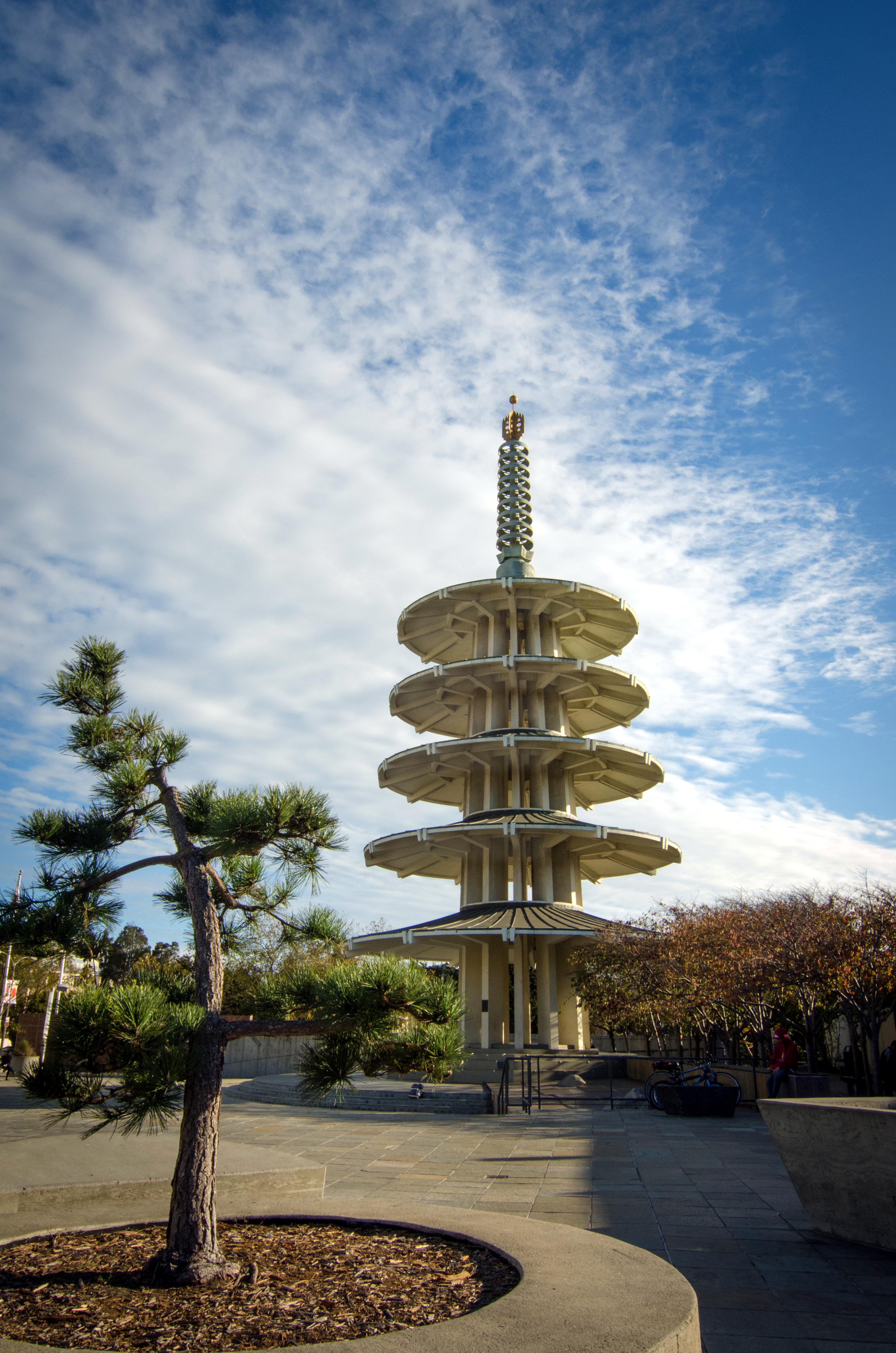 Peace Pagoda (made of concrete) Designed by Japanese architect Yoshiro Taniguchi (Jul. 24 1904 — Feb. 2 1979) Japantown (Nihonmachi) San Francisco, CA